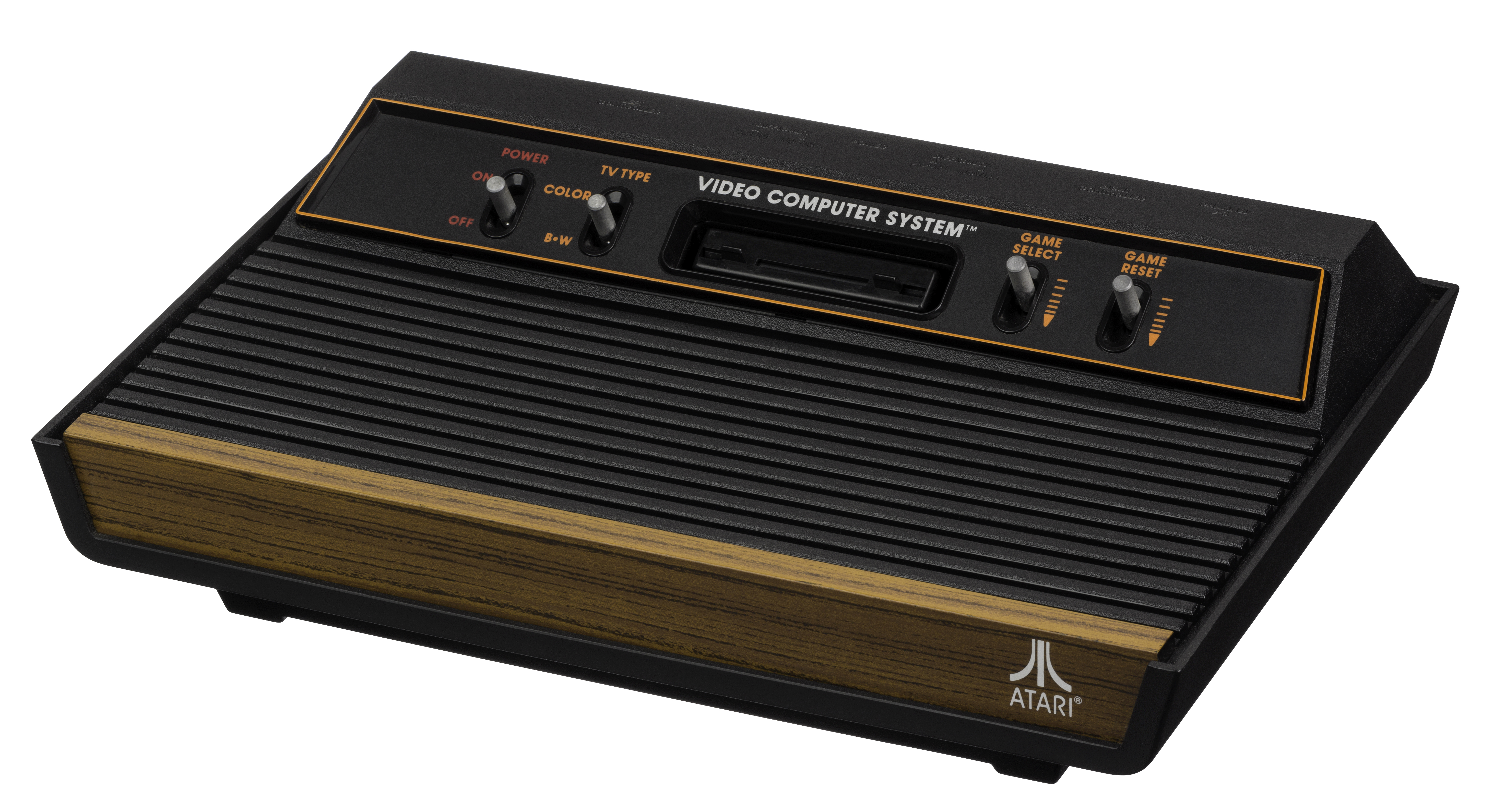 The Atari 2600, a video game console released by Atari in 1977. Originally called the Atari Video Computer System, the system was the most popular gaming console of the late '70s and early '80s. This model is the "Woody" unit with woodgrain and 4 front switches that is the most common and iconic of the various 2600 models.